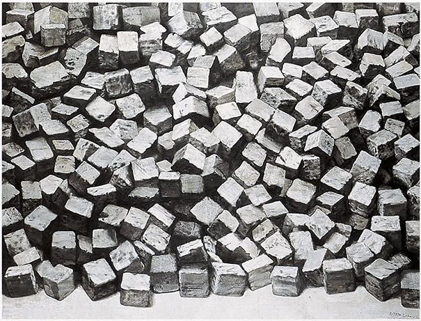 This artwork is to be found in the 80 pages art catalog "László Lakner Chinese Postcard". It shows those works of the artist, which were inspired by Asian culture.